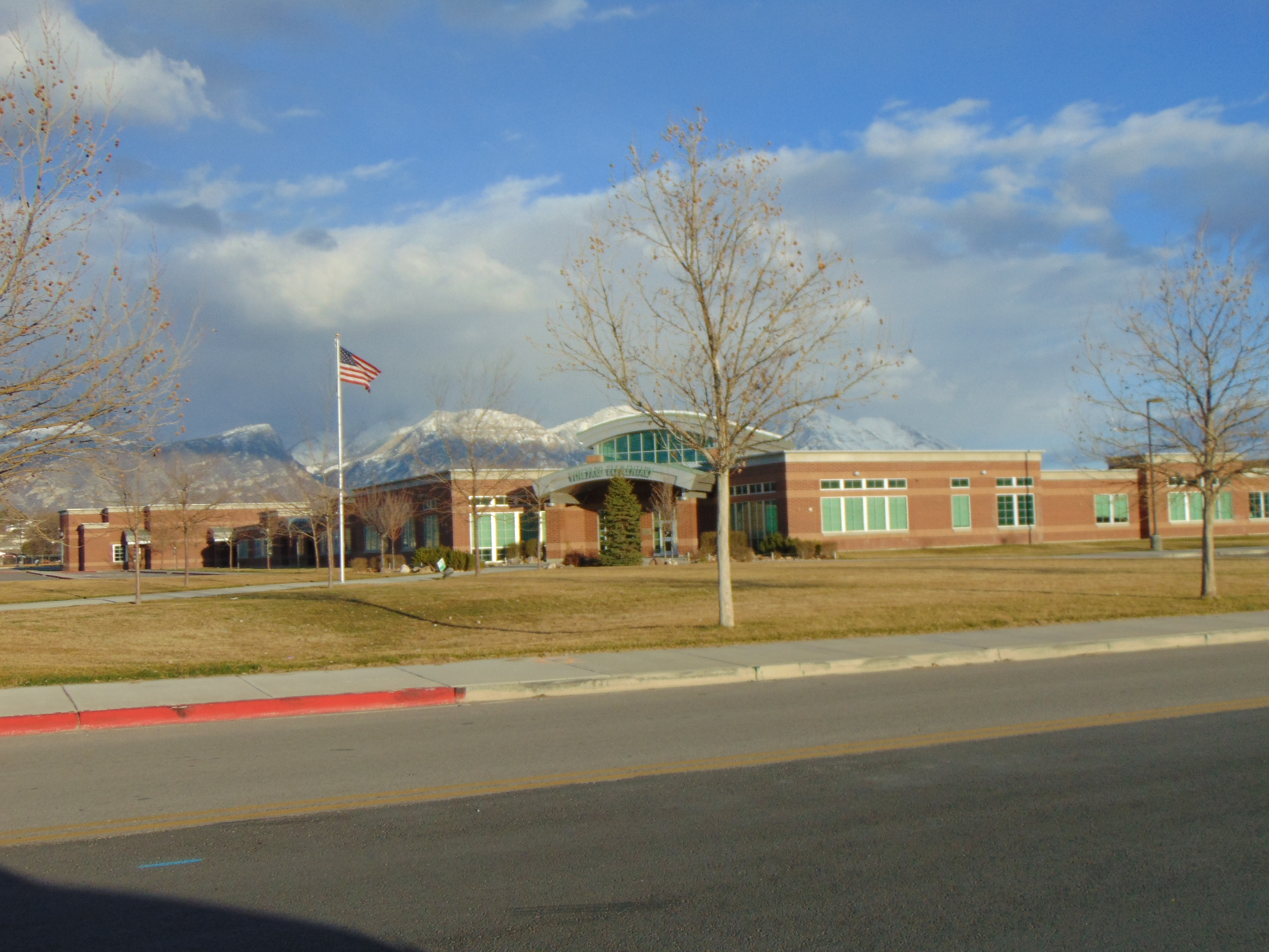 Looking east at the Vineyard Elementary School in Vineyard, Utah, March 2016